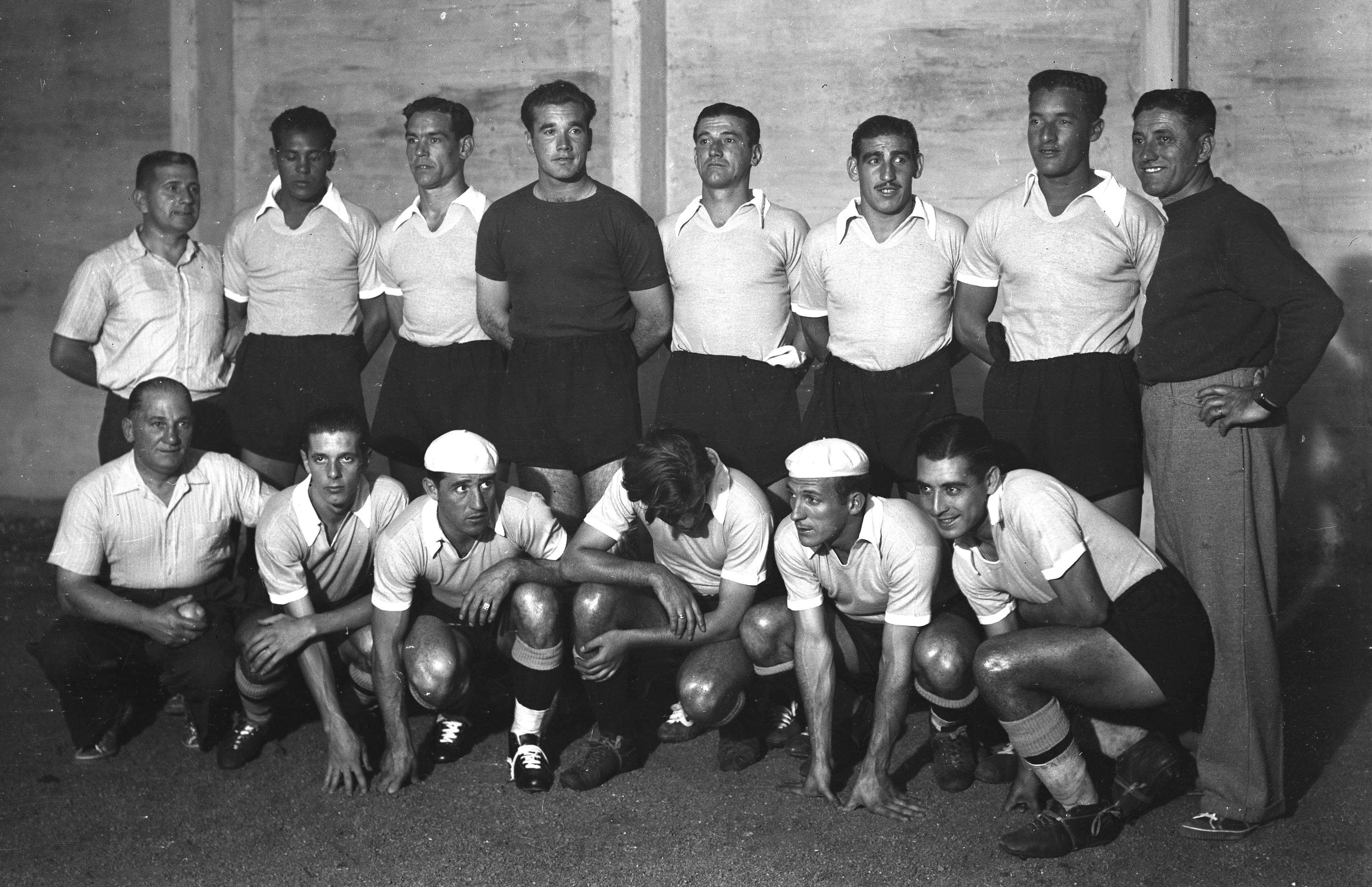 Uruguay national team that won the Copa América.